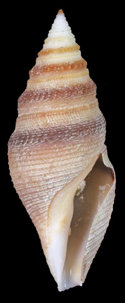 Bathytoma viabrunnea (Dall, 1889) ; family Borsoniidae; Guadeloupe